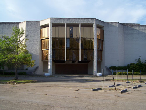 Old Belks building at Regency Mall, Augusta, Georgia, USA. Opened as a co-anchor at Regency Mall in 1979 and empty since 1997